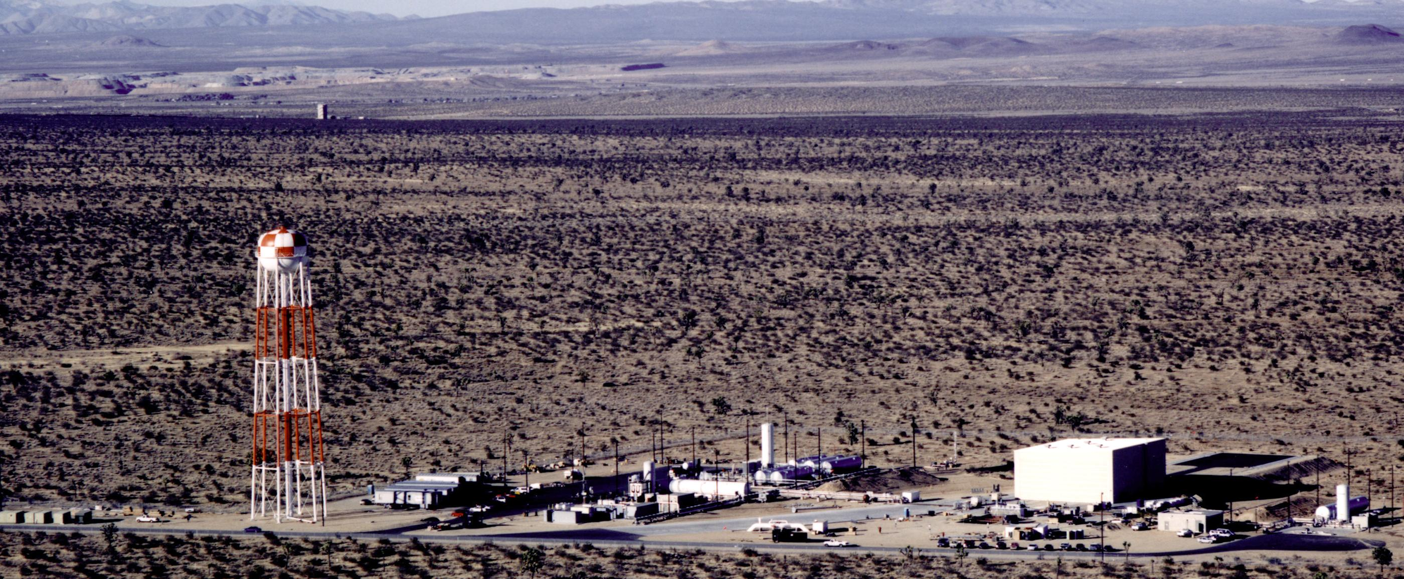 Edwards Air Force Base X-33 launch facility —— designed to inspect, fuel and launch the X-33. This is a derivative work, based upon original NASA image posted online: X-33 launch site at Edwards Air Force Base.